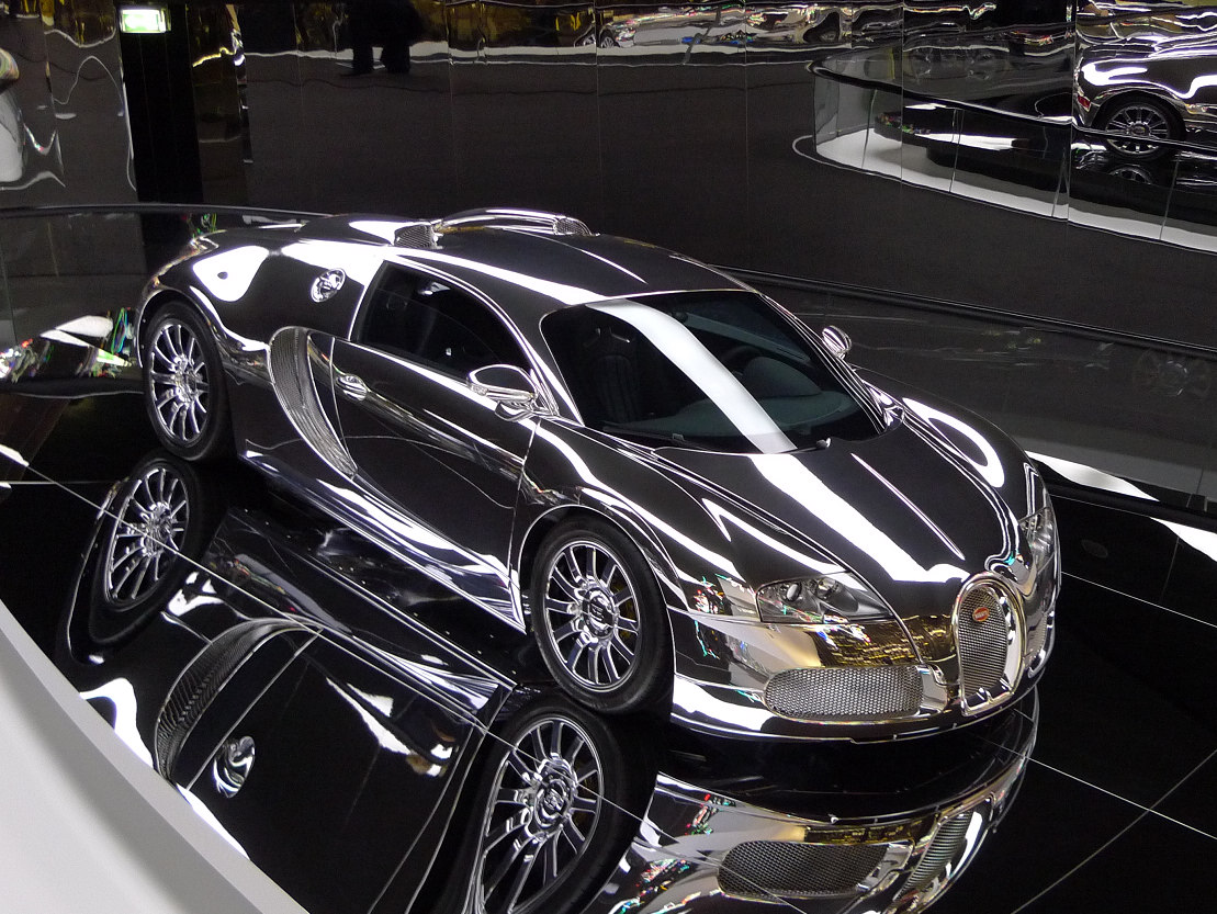 BUGATTI VEYRON VW Autostadt Wolfsburg